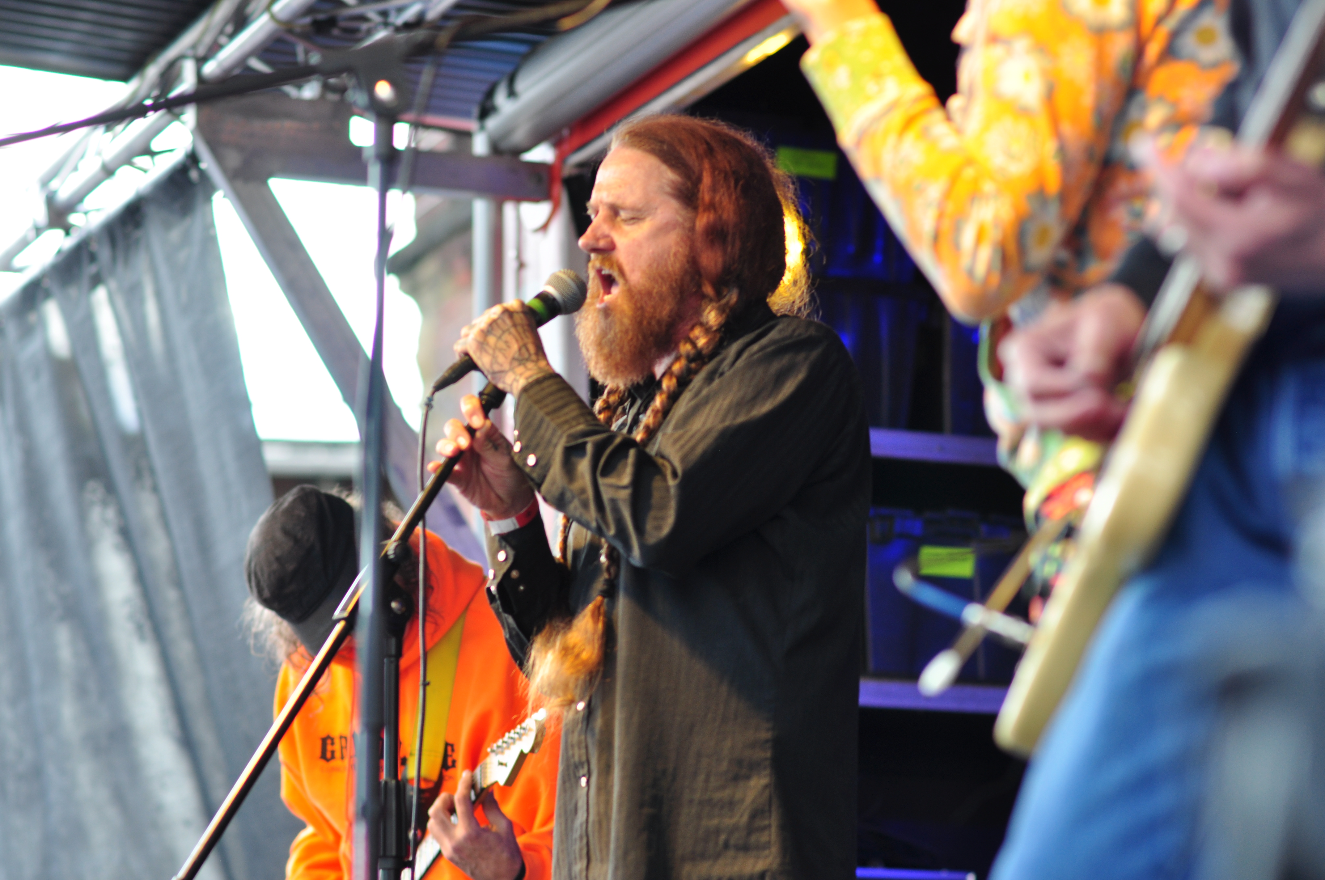 Sky Cries Mary perform at the Georgetown Carnival, Seattle, June 9, 2018.